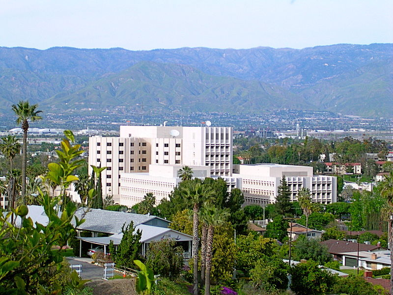 Photo taken of the Loma Linda University Medical Center from "the South Hills."